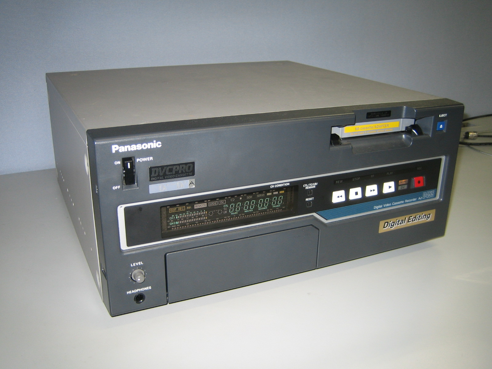 Panasonic DVCPRO Video Casette Recorder AJ-D455